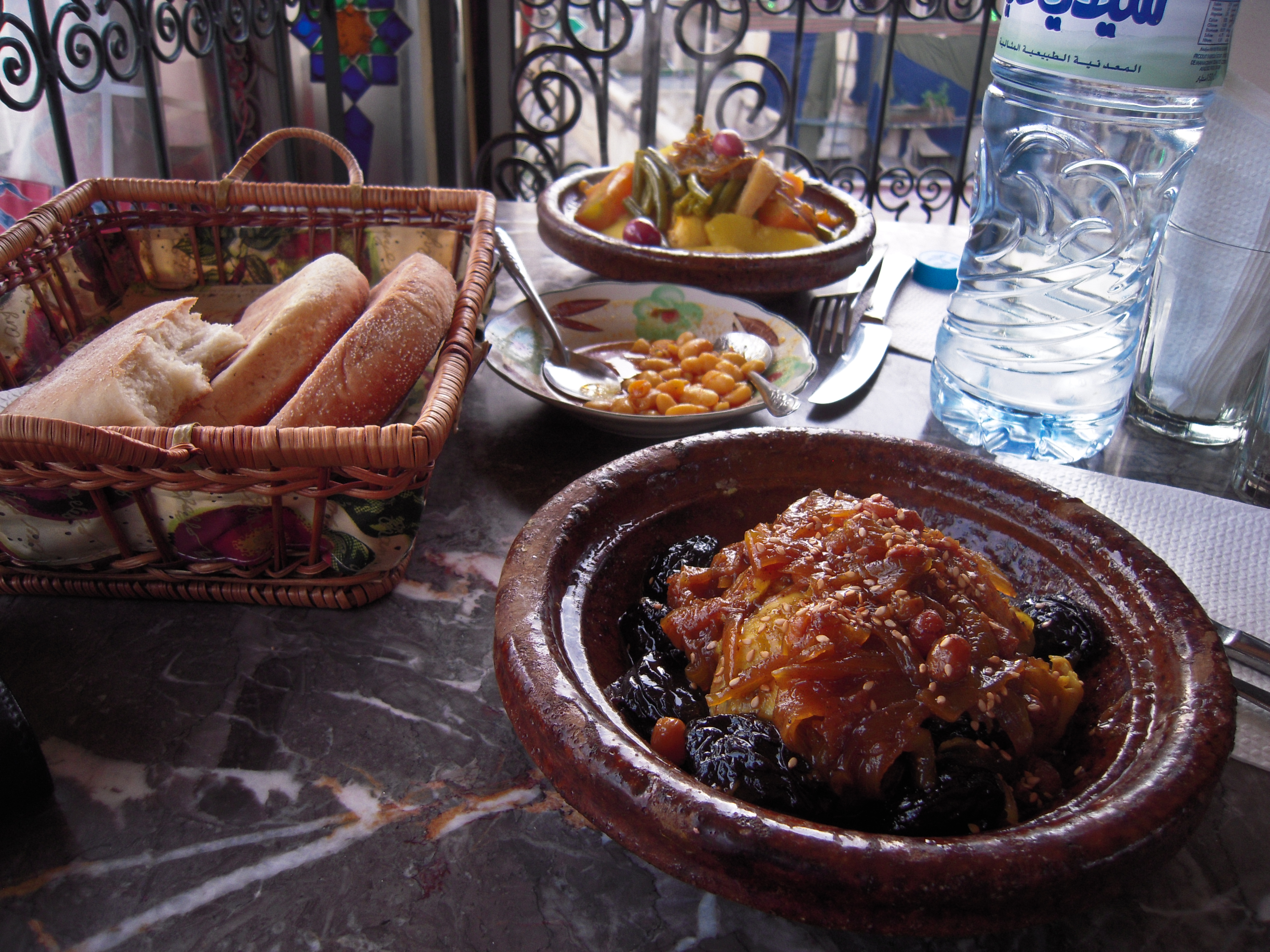 Moroccan food and drink - tajine